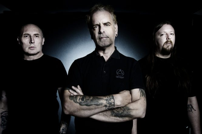 John Bryson, Pete Lyons, Joe Burwood (Photography by Ester Segarra)